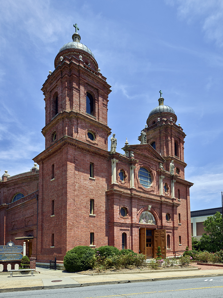 Title: The Catholic Basilica of St. Lawrence in Asheville, North Carolina. Physical description: 1 photograph : digital, tiff file, color. Notes: Purchase; Carol M. Highsmith Photography, Inc.; 2017; (DLC/PP-2016:103-7).; Forms part of: Carol M. Highsmith's America Project in the Carol M. Highsmith Archive.; Credit line: Photographs in Carol M. Highsmith's America Project in the Carol M. Highsmith Archive, Library of Congress, Prints and Photographs Division.; Title, date and keywords based on information provided by the photographer.